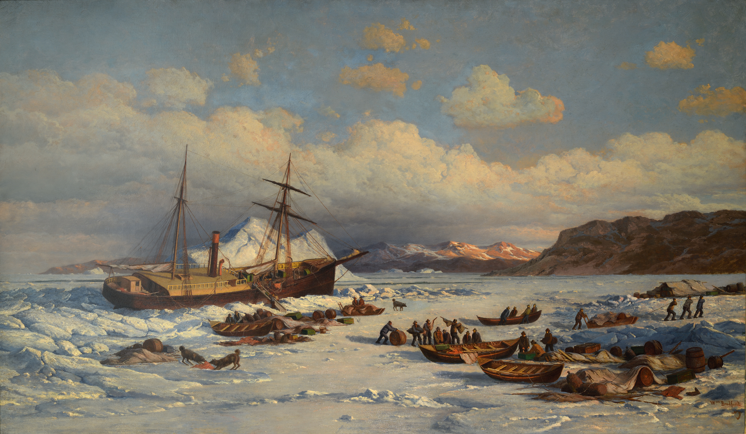 USS Polaris.